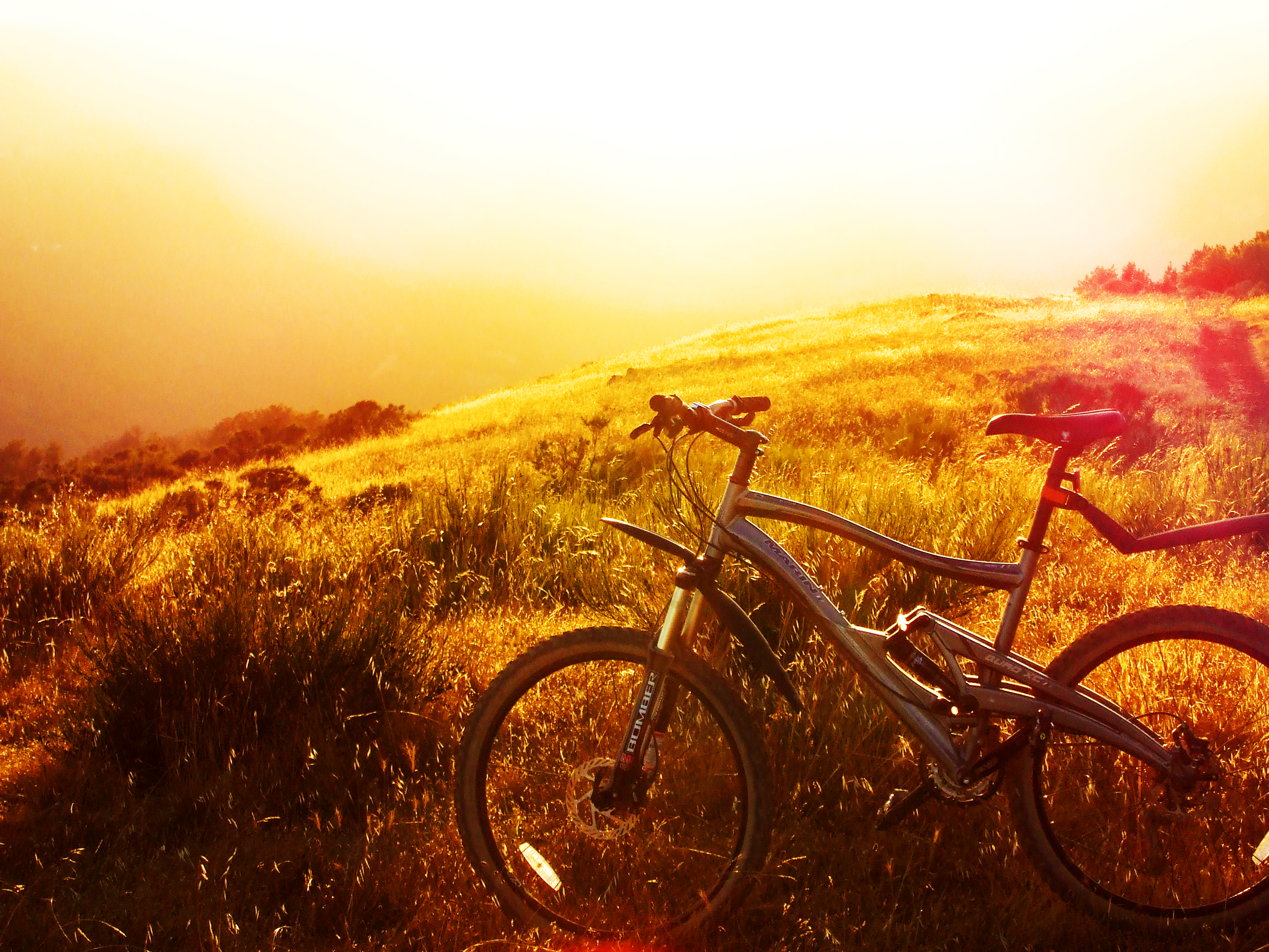 A Marin bike atop Bald Hill near San Anselmo (Marin County, California).